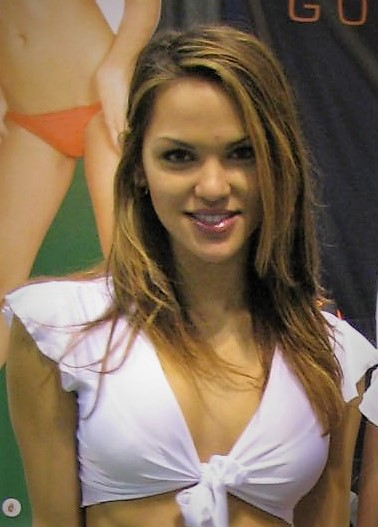 Booth Babes at the 2008 PGA Merchandise Show. Left is CJ Gibson.